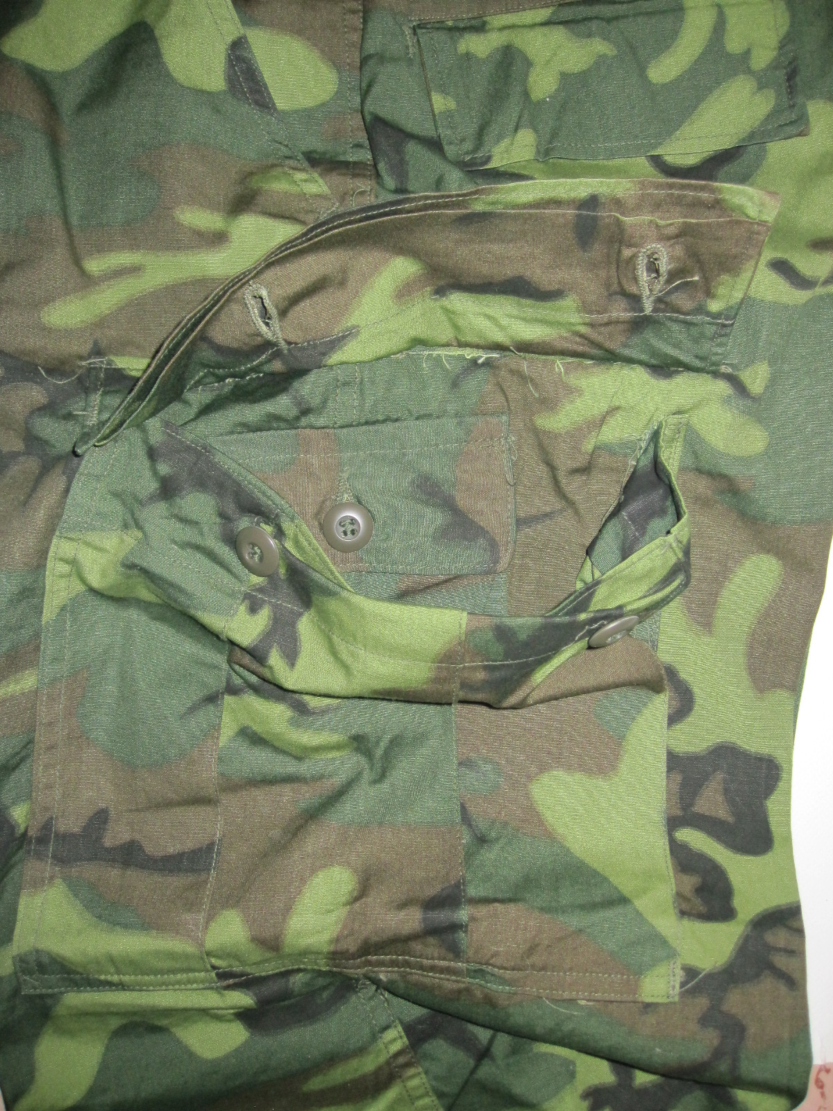 ERDL Pattern of Vietnam war era trousers.